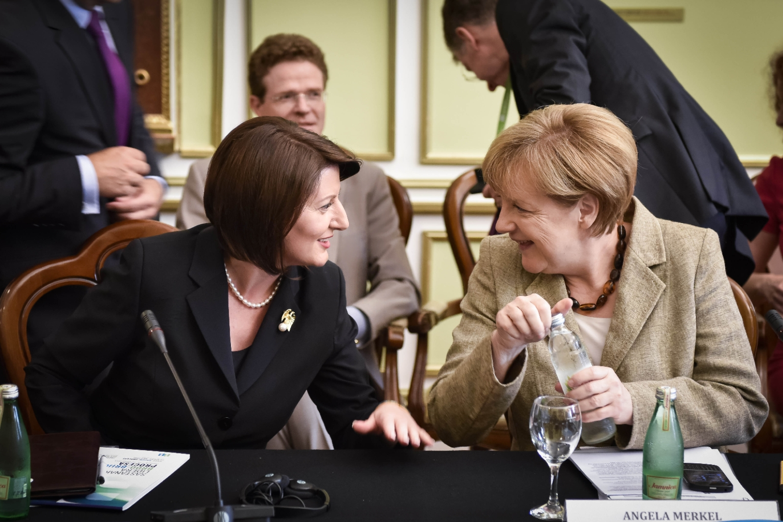 President Jahjaga in a meeting with Angela Merkel